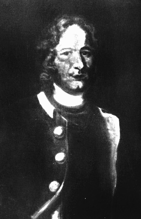 Jürgen Christoph von Koppelow (ca. 1740)